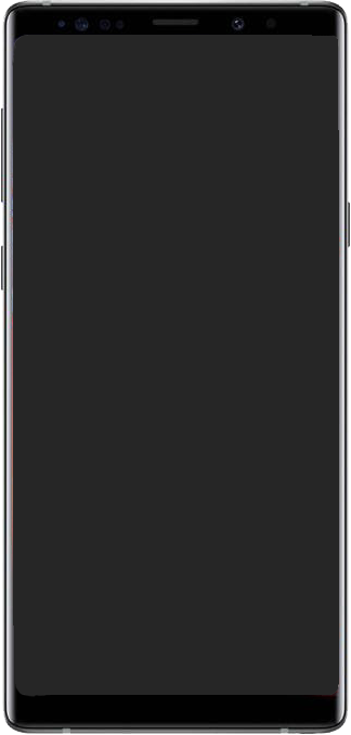 I've designed a Galaxy-Note-like vector for Wikipedia articles.